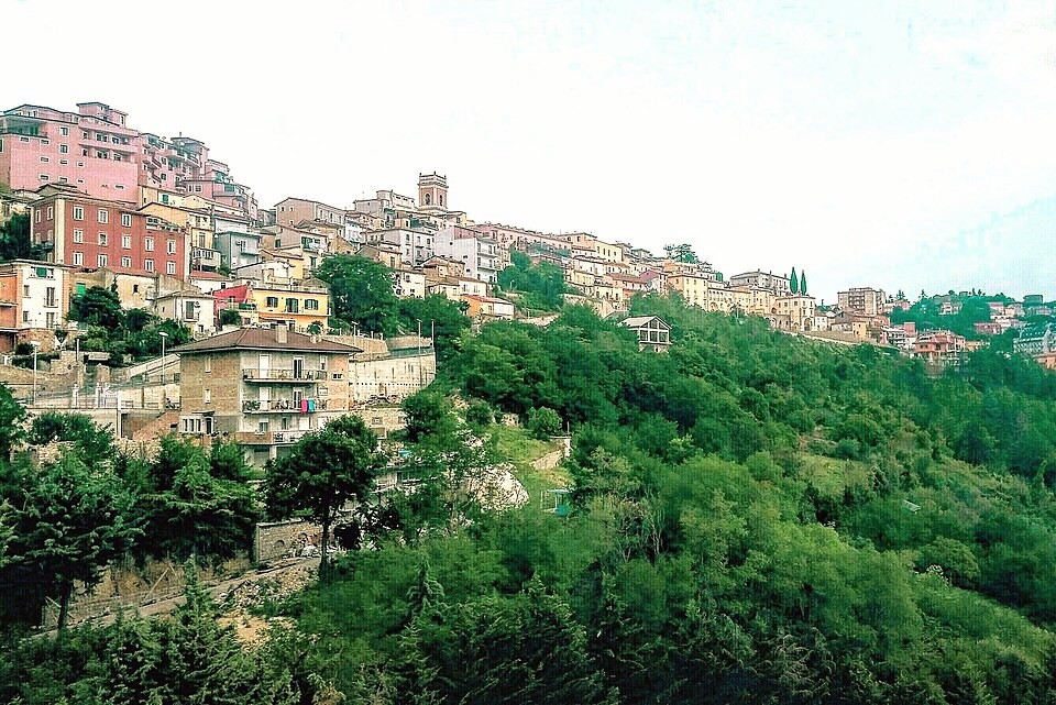 The town of Ariano Irpino, Italy